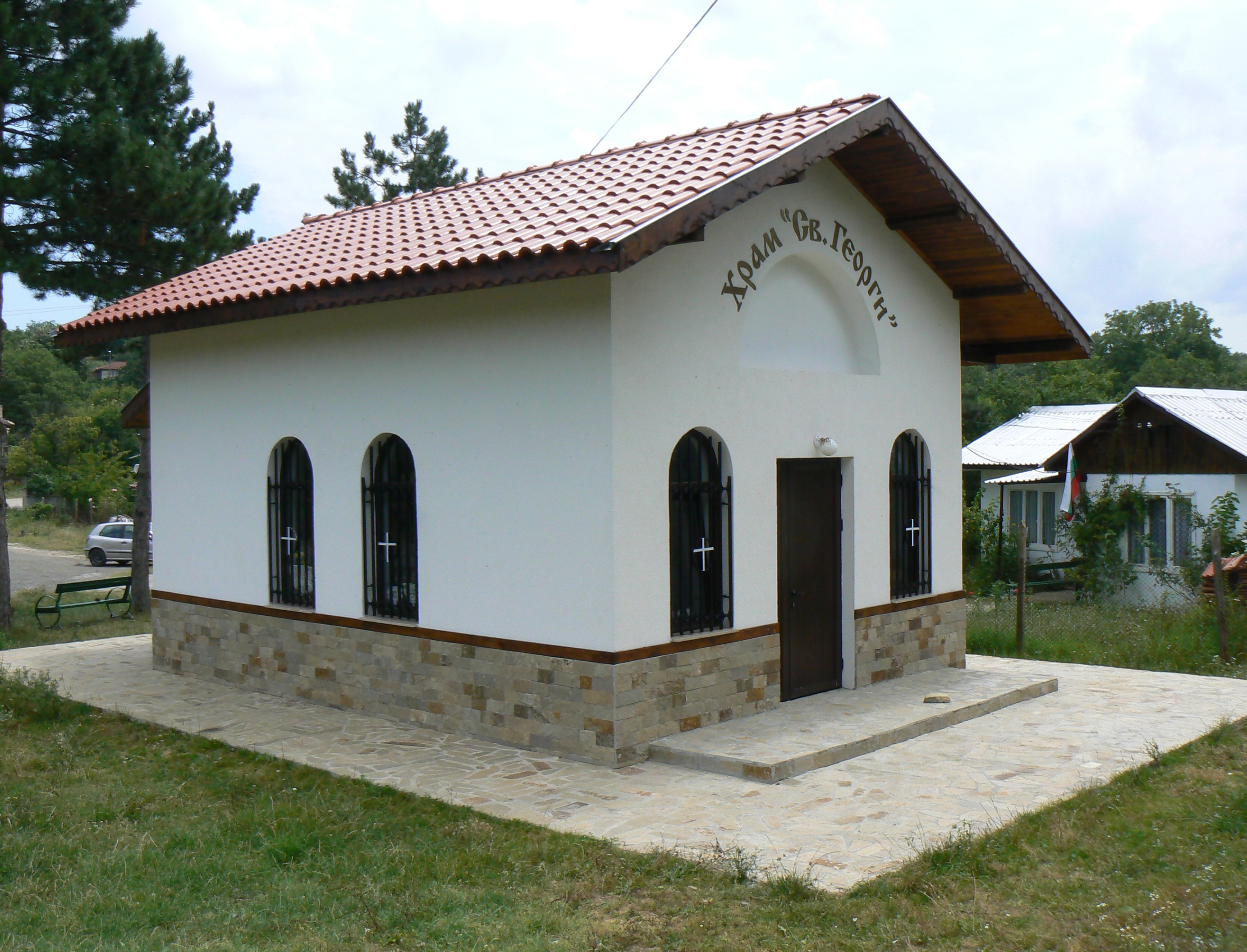 The church "Saint George" in the village of Kondolovo, Bulgaria